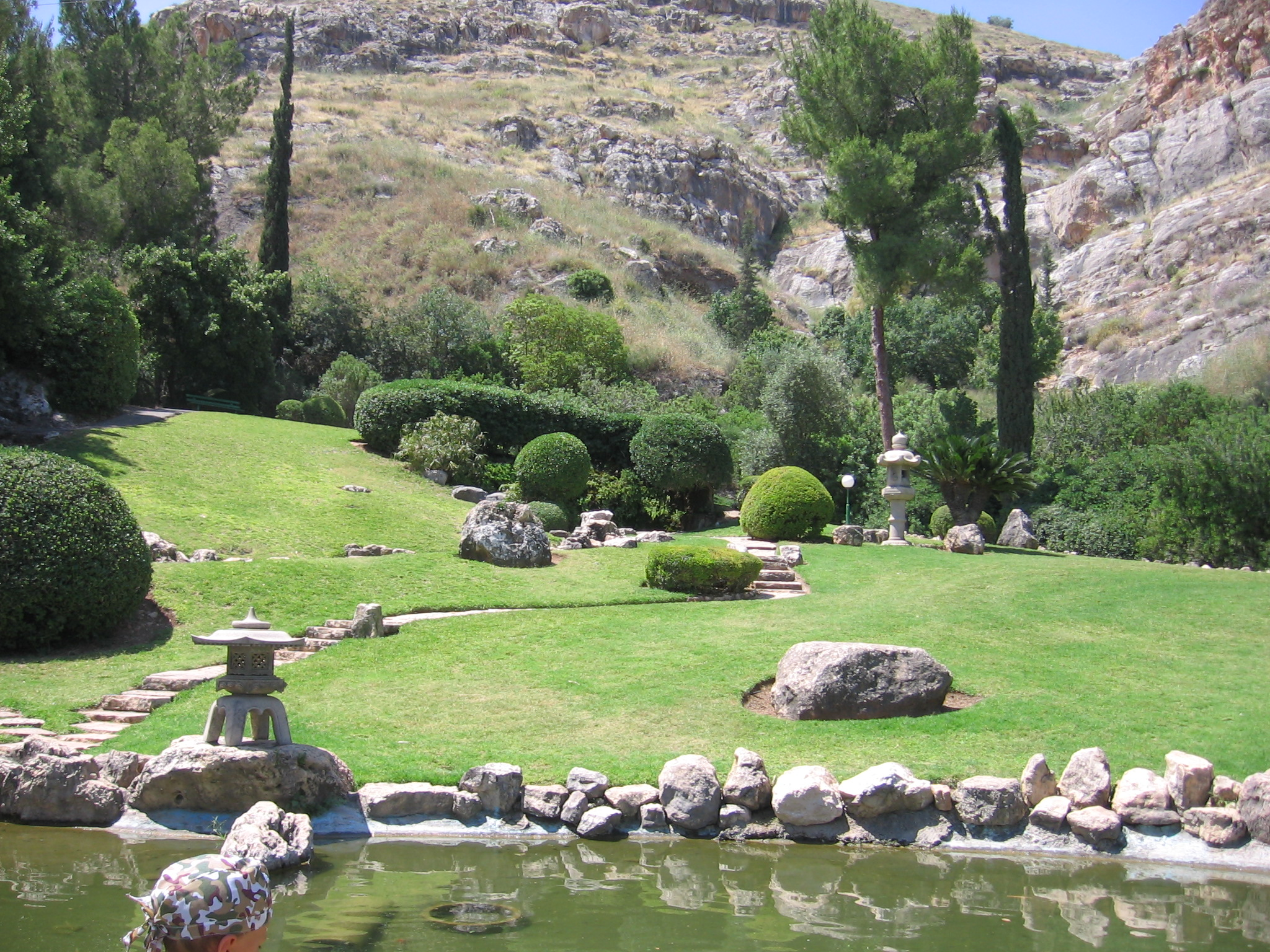 Geography of Israel